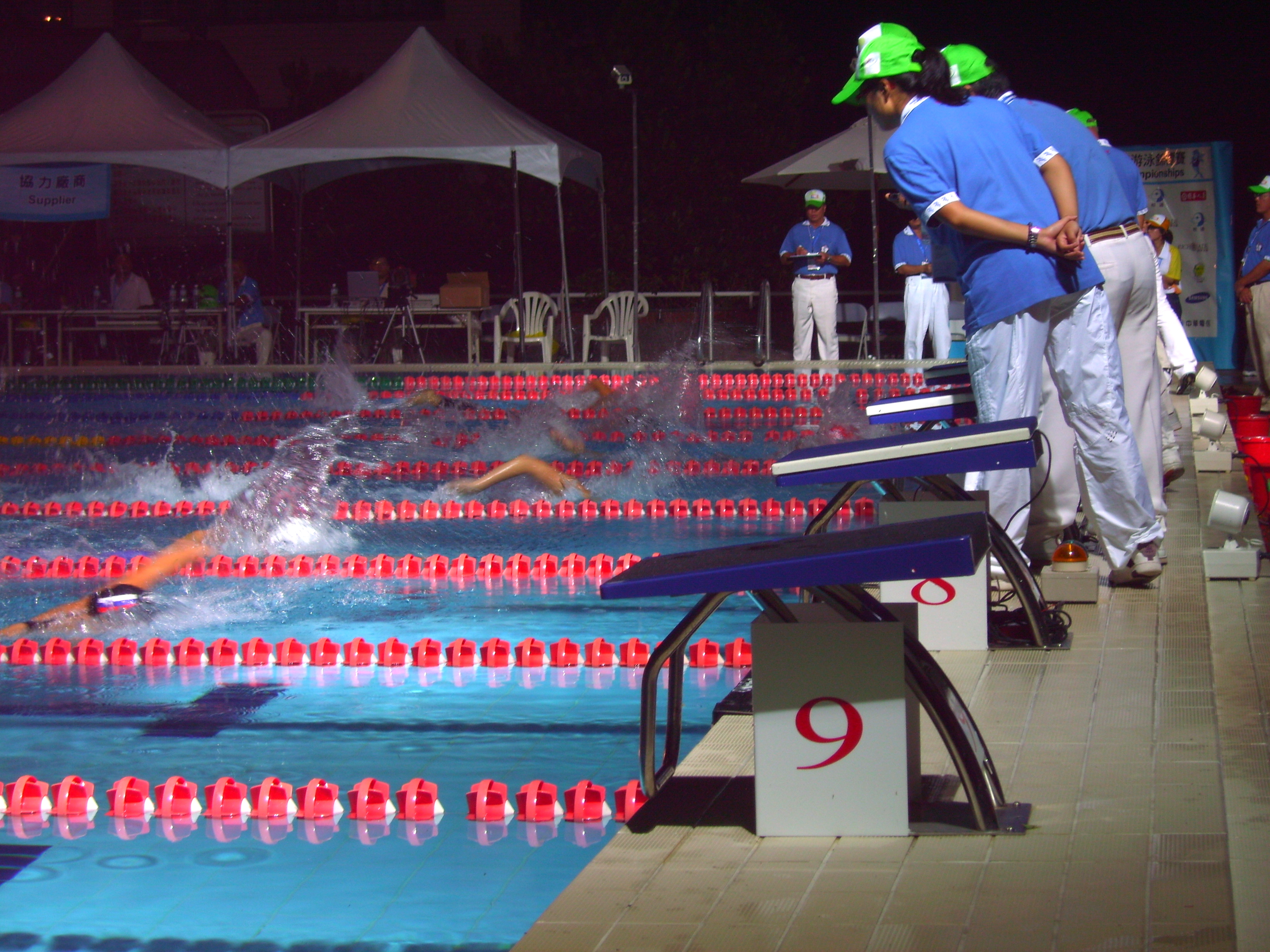 2007 World Deaf Swimming Championships: Extra Match of Women 50m Freestyle.